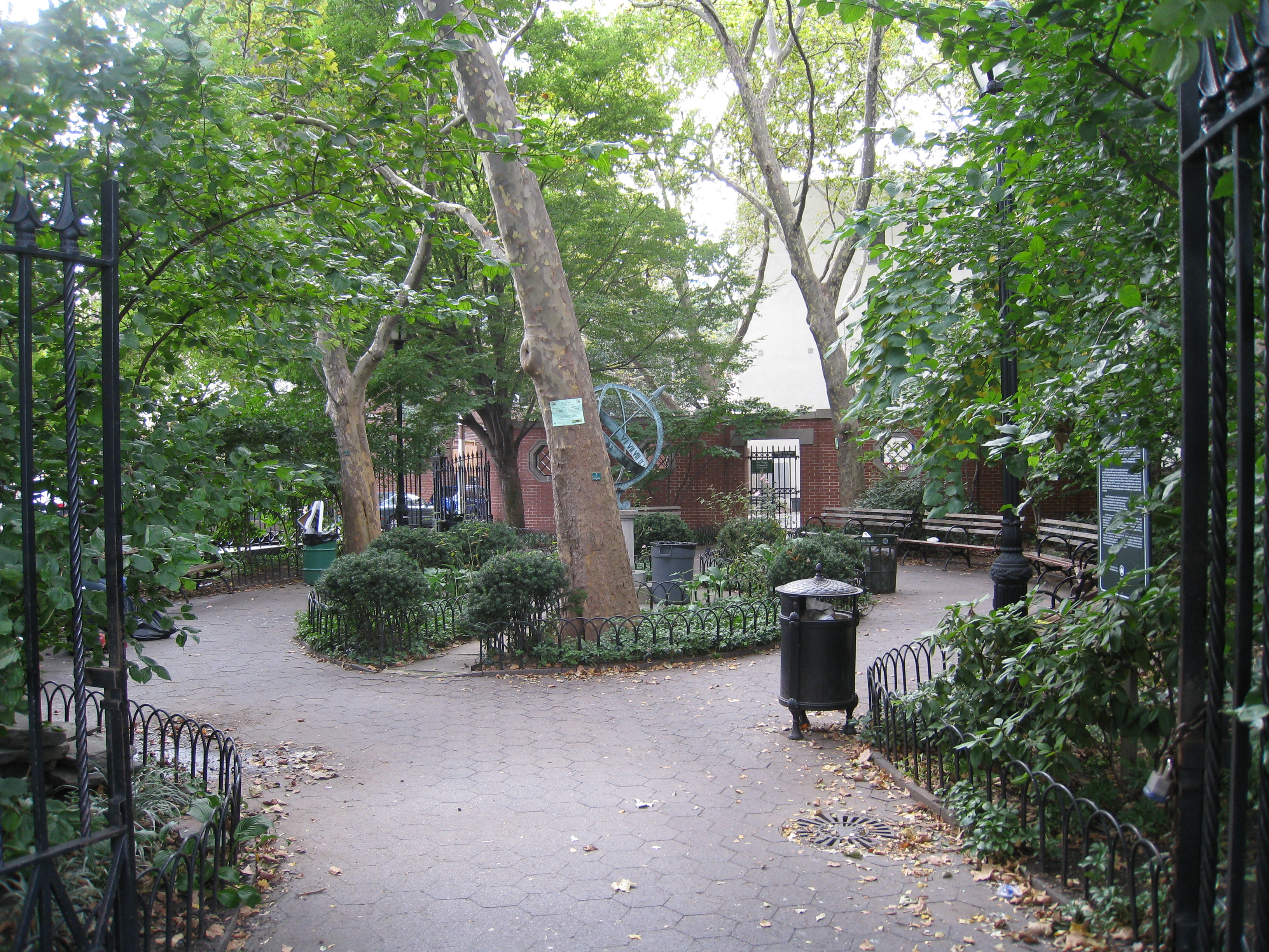 This photo is of Wikis Take Manhattan goal code R20, Pocket park.